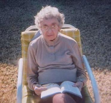 An Elderly Woman Wearing Glasses and Reading a Book